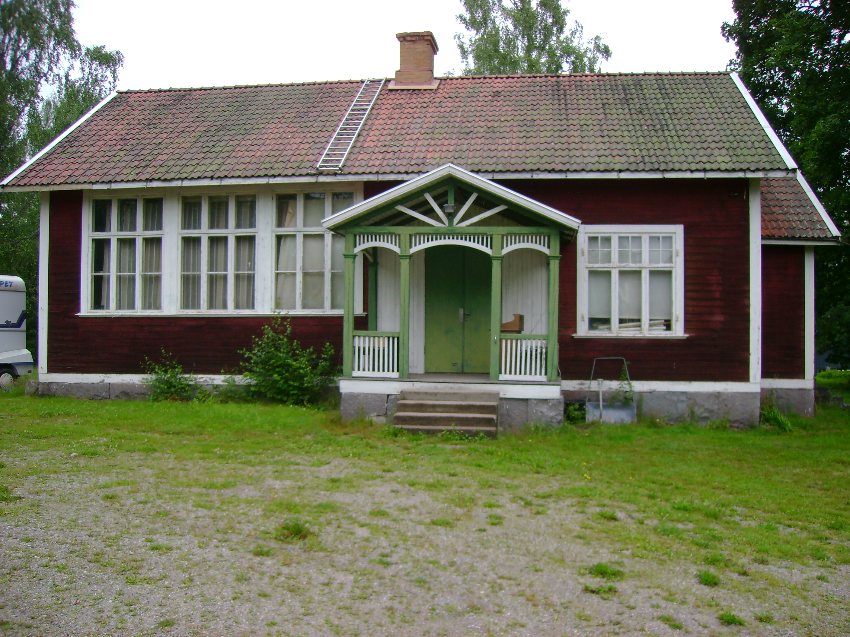 The Building is a part of Djulö skola in Djulö Kvarn